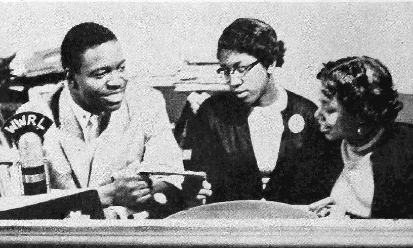 Photo of disc jockey Tommy Smalls with two members of his fan club, Evelyn "Squeekie" Rowe and Arlene "Peaches" Flanagan.